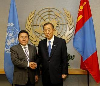 UN Secretary General Ban Ki-moon and Mongolian President Tsakhiagiin Elbegdorj meet at the UN Headquarters on 19 September 2011